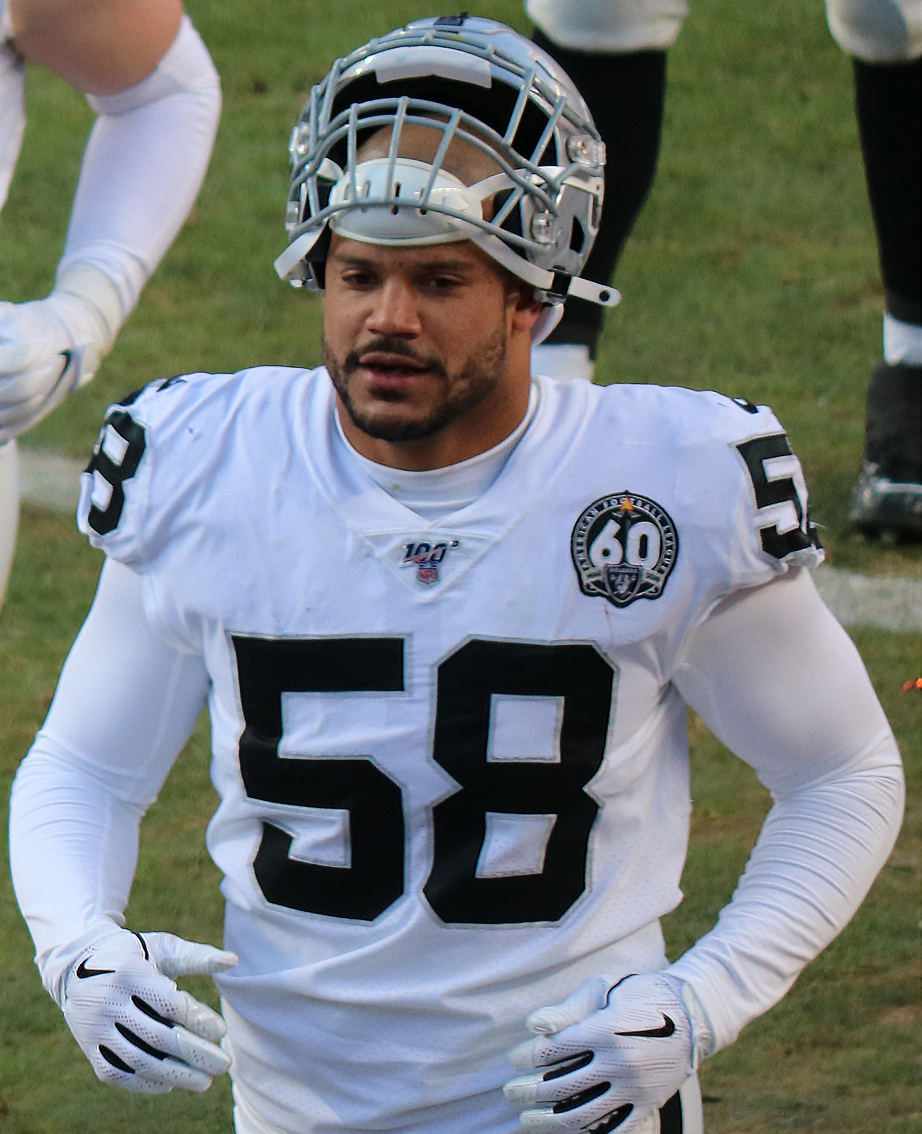 Kyle Wilber, a National Football League player.